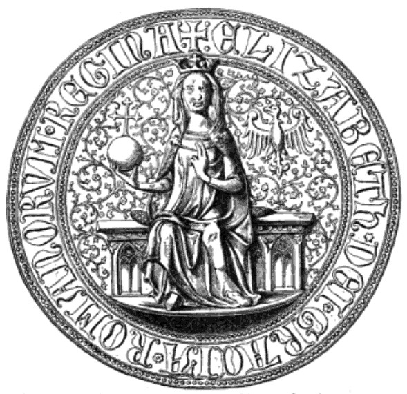 Isabel of Aragon